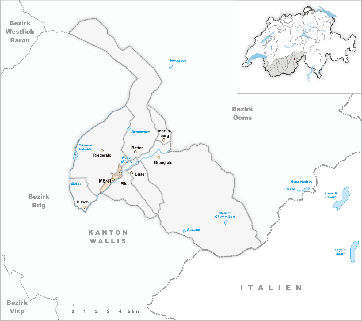 Municipality Mörel